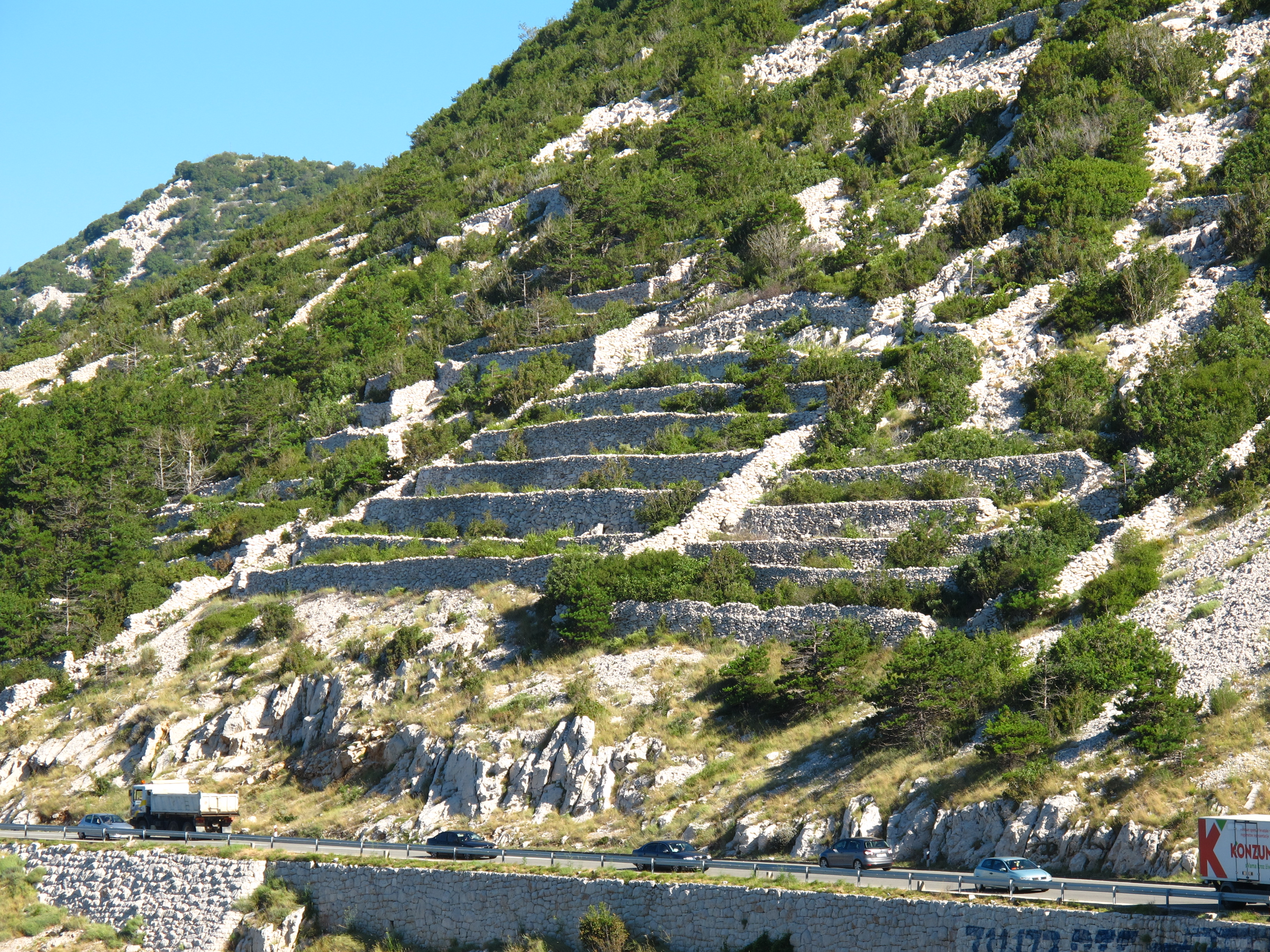 Fields, built in terraces, with walls of stone near the village of Bakarac in Bay of Bakar / Croatia / Adriatic Sea. Below goes by the street Adriatic Highway (Adriatic coastal road).